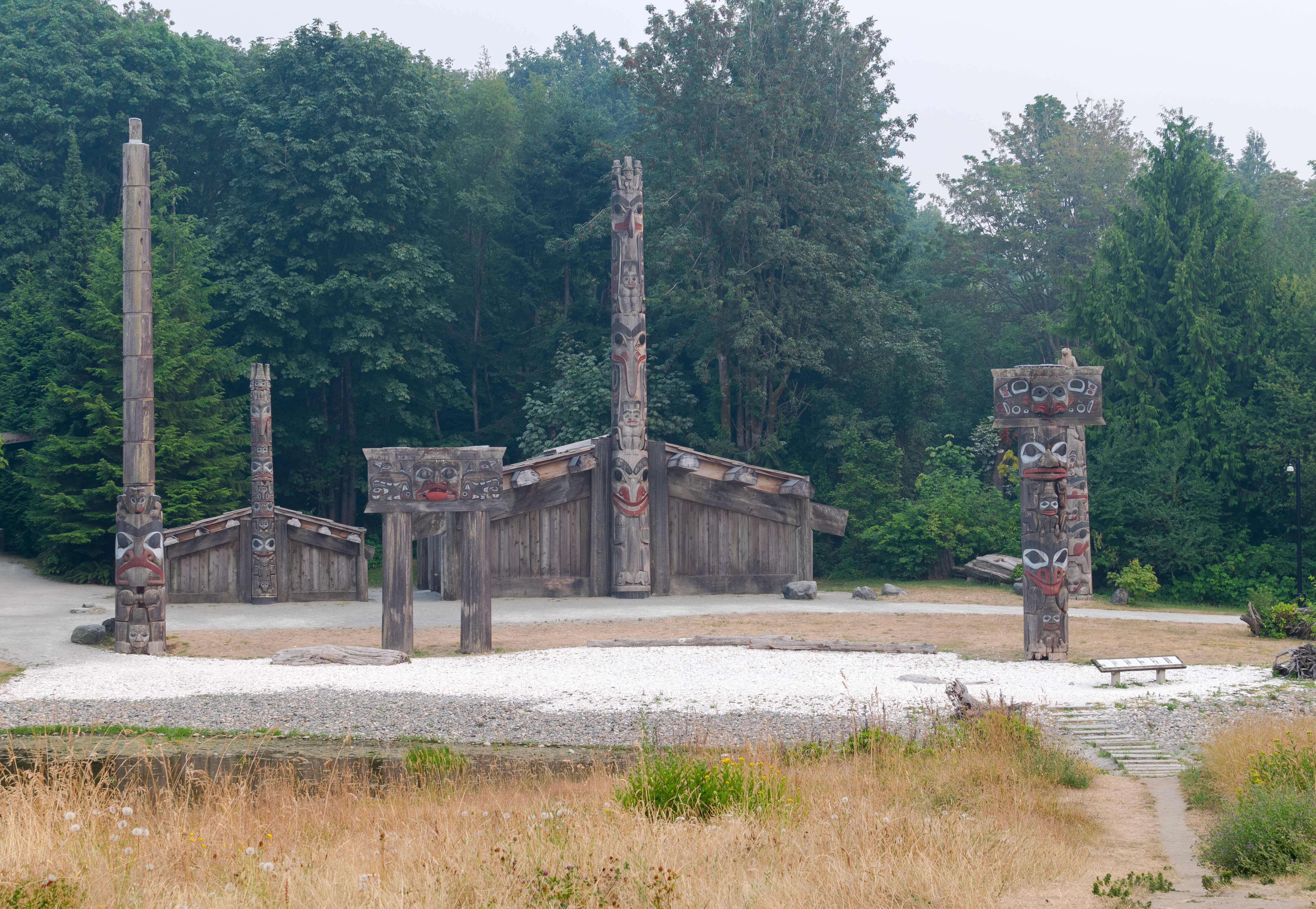 Haida House at the Museum of Antropology UBC